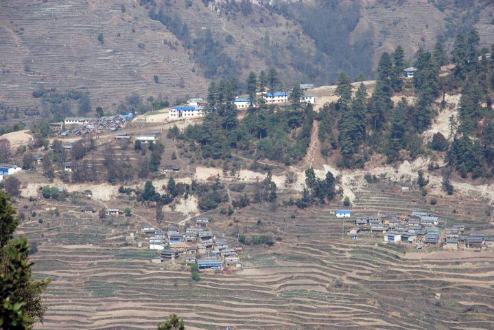 Village of Nangi in Myagdi, Nepal.